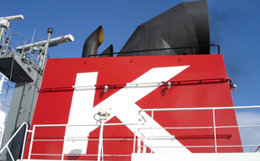 Exhaust stack from "K" Line vessel MV Vincent Thomas Bridge, a 4014 TEU container ship. Taken in Tacoma, WA USA by Peter G. Kim on February 4, 2005 IMO Number: 9292266 MMSI Number: 351968000 Callsign: H3WJ Length: 294 m Beam: 32 m